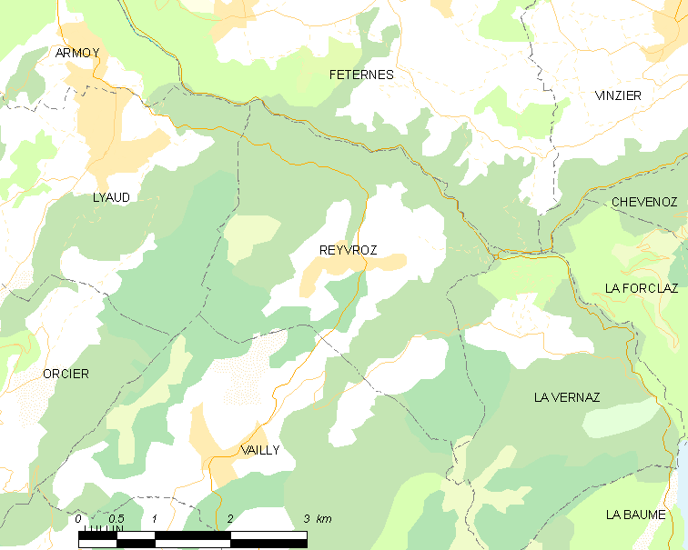 Map of French municipality Reyvroz